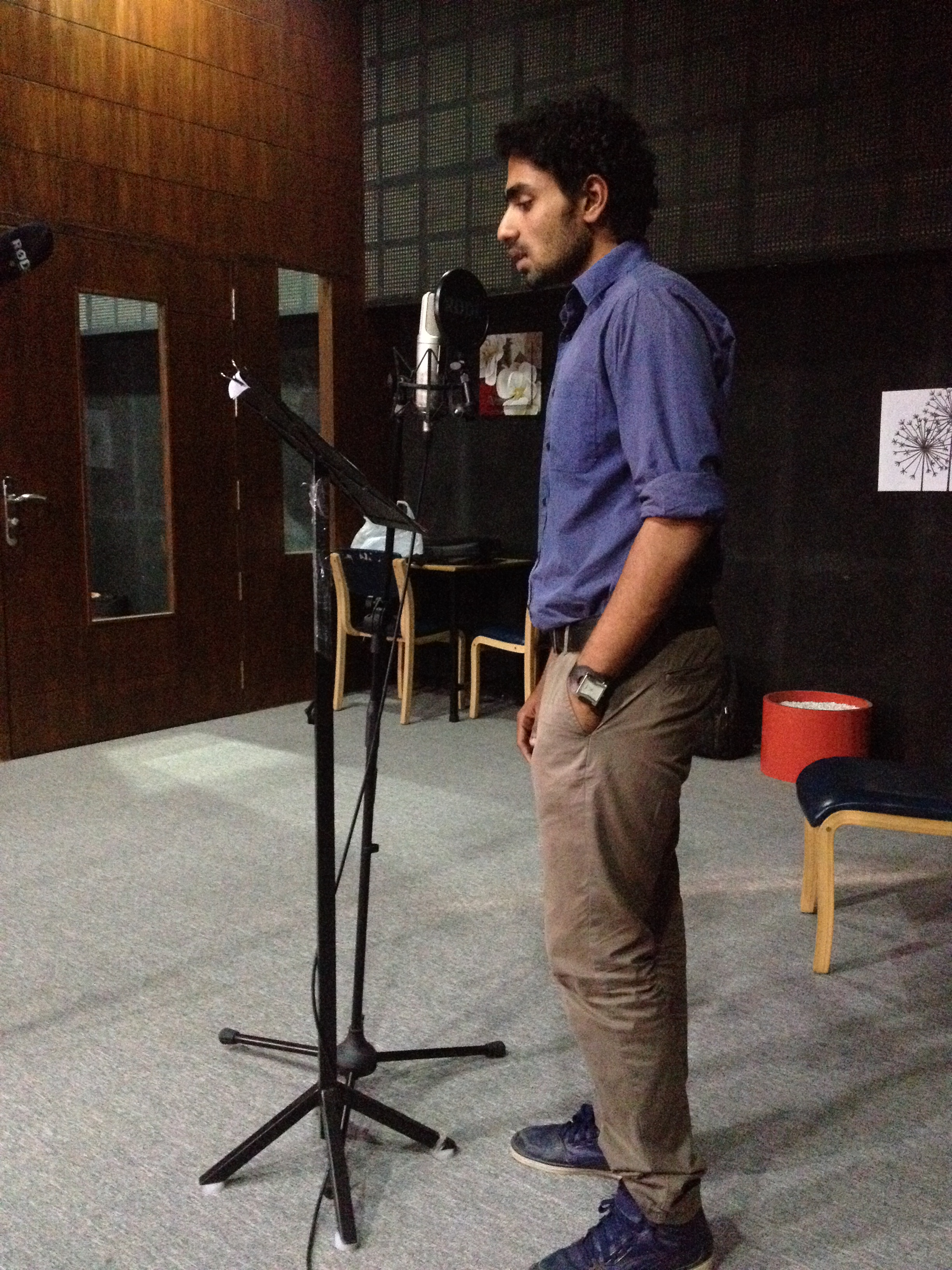 Christ University student giving voiceover for Hindi Wikipeia tutorial. Credit information: This work was created by Subhashish Panigrahi. You are free to use it for any purpose as long as you credit me properly. Contact me: If you are the subject of the picture and would like to schedule another shoot. If you're unsure about how you can use this picture. Reuse: If you use this image outside of Wikimedia projects, I would be happy to hear from you. If you use this image in a printed publication, I would love to get a copy for my archives.